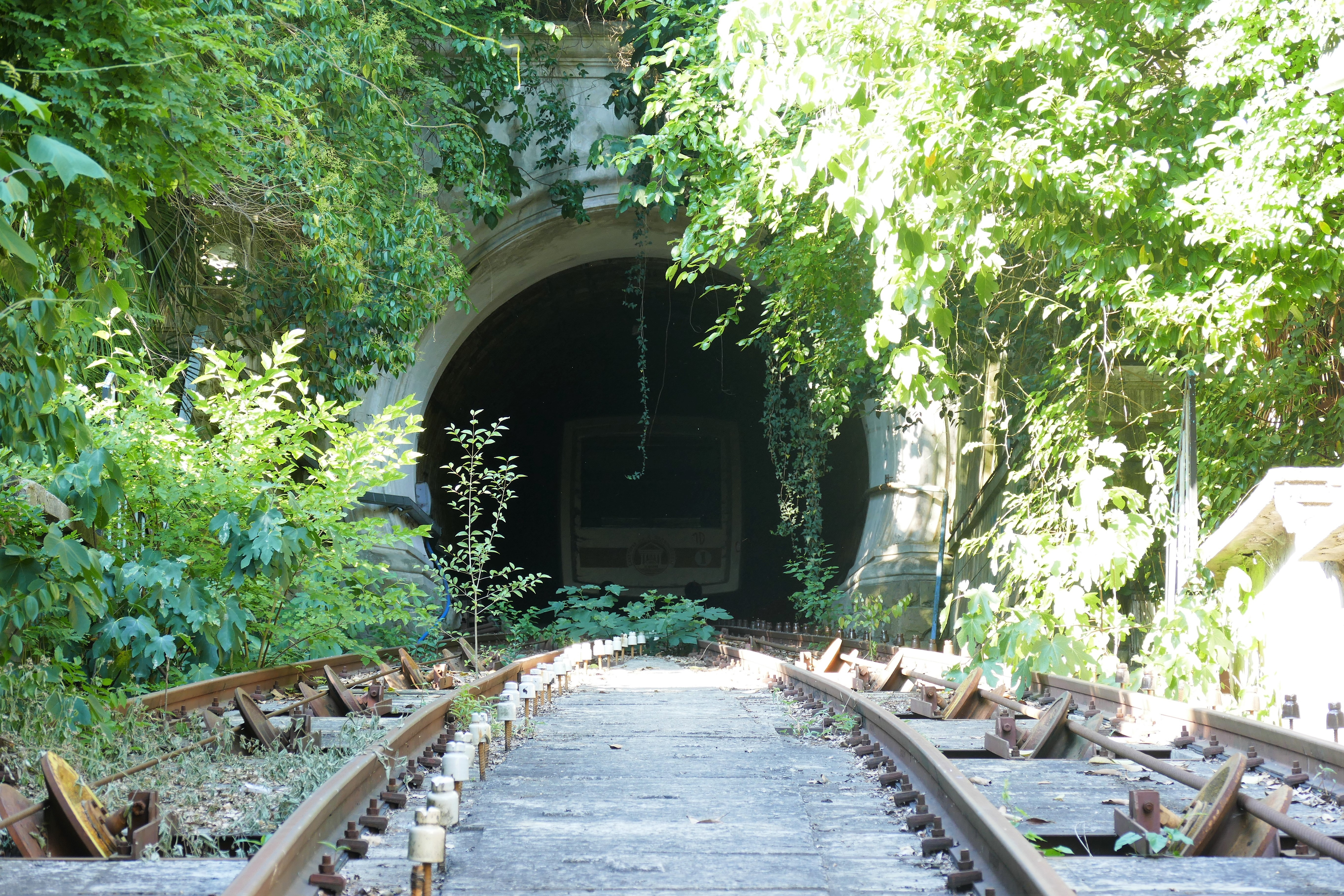 Abandoned funicular Ordzhonikidze sanatorium, Sochi